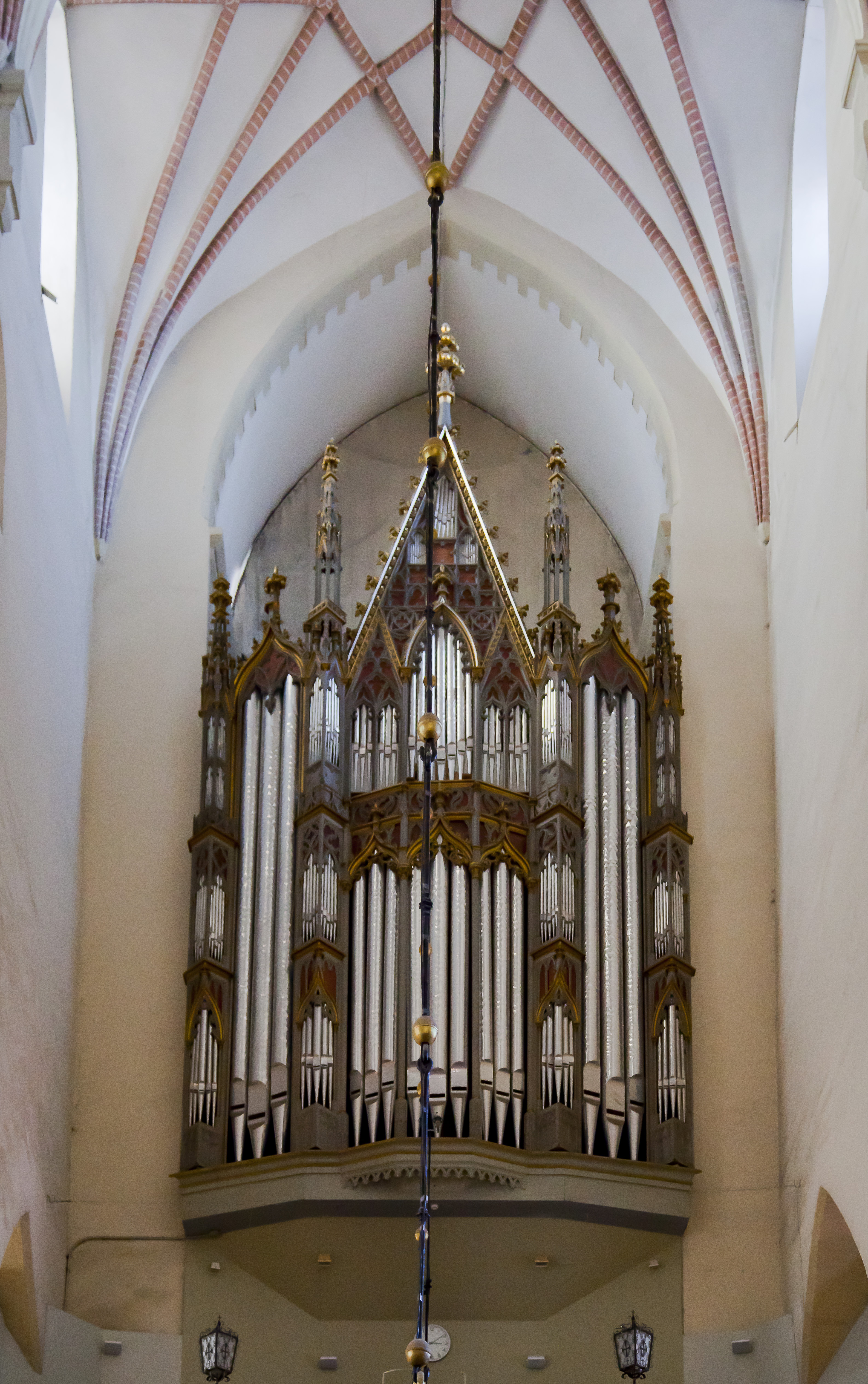 St Olaf's Church, Tallinn, Estonia